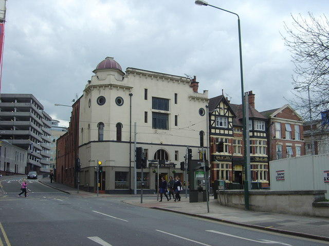 Horn in Hand, Goldsmith Street This pub was built in 1910 as a cinema (Pringle's Picture Palace) before become the home of the Nottingham Playhouse in 1948. After that company moved to its purpose-built theatre in 1963, it became a furniture warehouse before being converted to a pub.